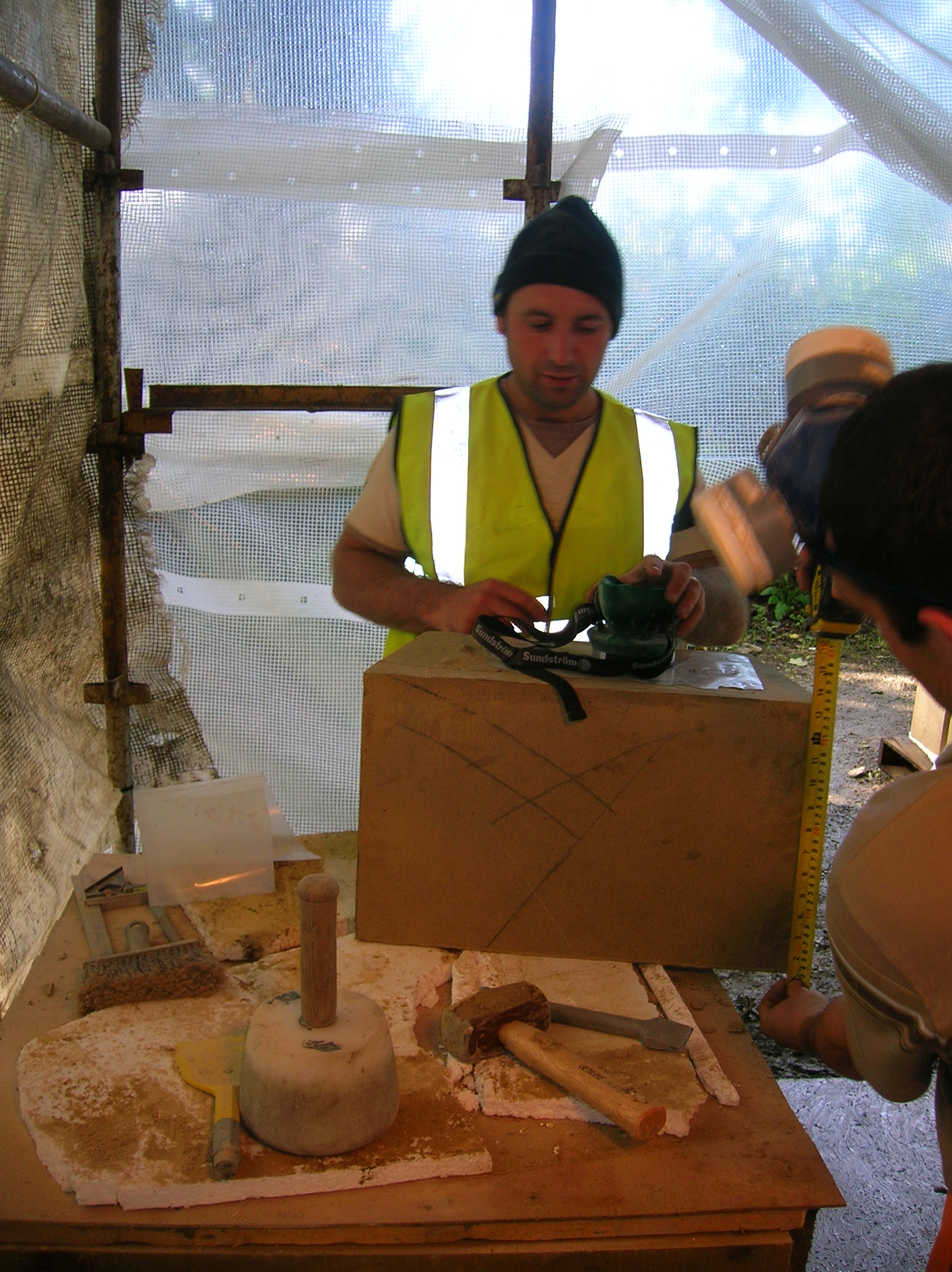 Mason working on stone for the Tournament Bridge, Irvine, Scotland.